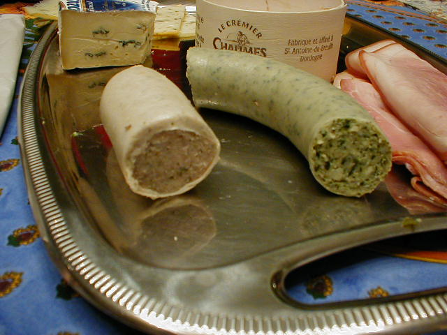 "green sausage" (right), typical of Orp-le-Petit, Wallonia. Walon: vete tripe (a dtroete) d' Oû-l'-Pitit (portrait saetchî pa L. Mahin).